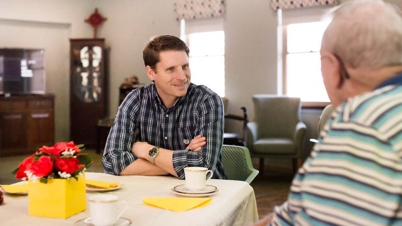 Andrew Hastie MP visiting a local aged care community in Mandurah, WA.